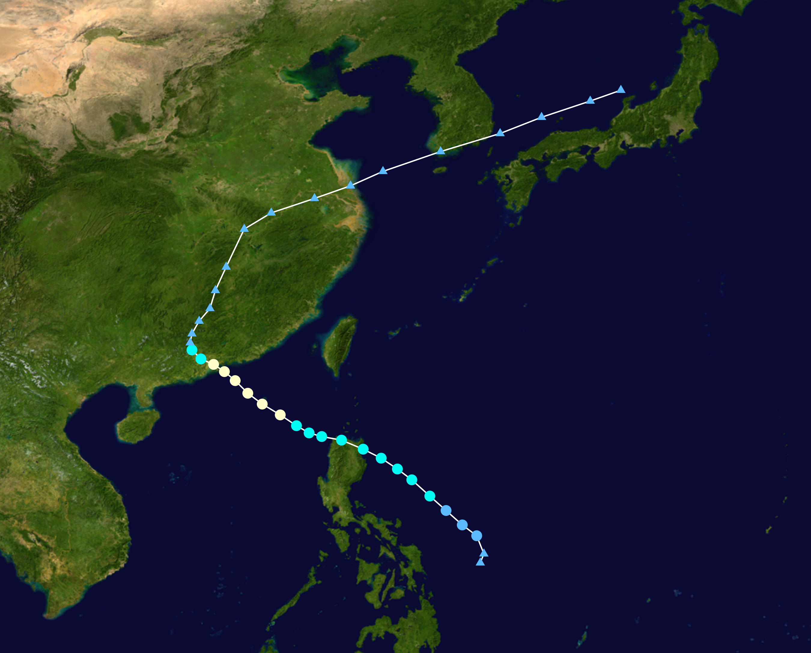 Track map of Severe Tropical Storm Sam of the 1999 Pacific typhoon season. The points show the location of the storm at 6-hour intervals. The colour represents the storm's maximum sustained wind speeds as classified in the Saffir–Simpson scale (see below), and the shape of the data points represent the nature of the storm, according to the legend below. Saffir–Simpson scale Tropical depression≤38 mph≤62 km/h Category 3111–129 mph178–208 km/h Tropical storm39–73 mph63–118 km/h Category 4130–156 mph209–251 km/h Category 174–95 mph119–153 km/h Category 5≥157 mph≥252 km/h Category 296–110 mph154–177 km/h Unknown Storm type Tropical cyclone Subtropical cyclone Extratropical cyclone / Remnant low / Tropical disturbance / Monsoon depression